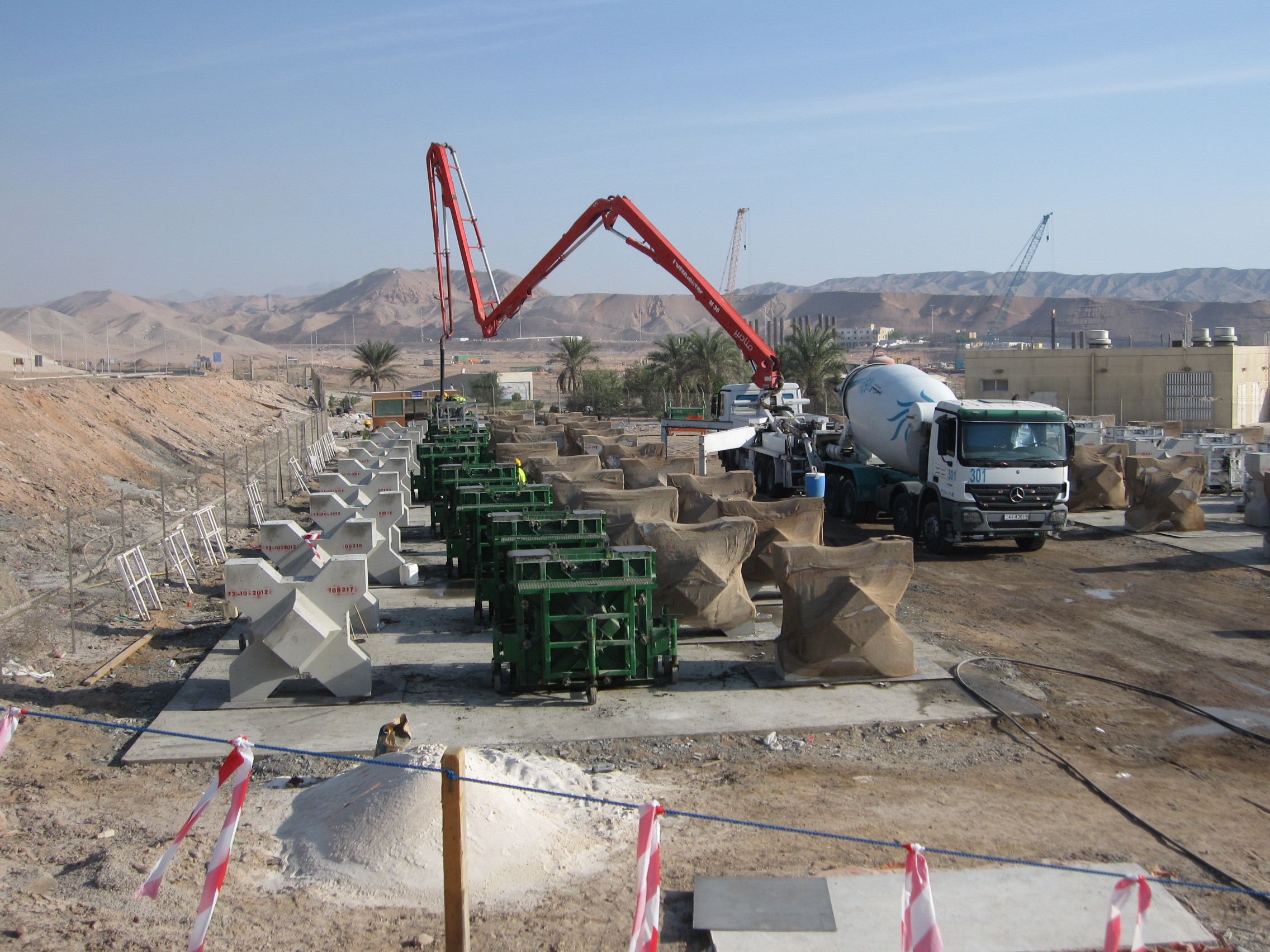 Production of Xbloc single layer armour units using concrete pump